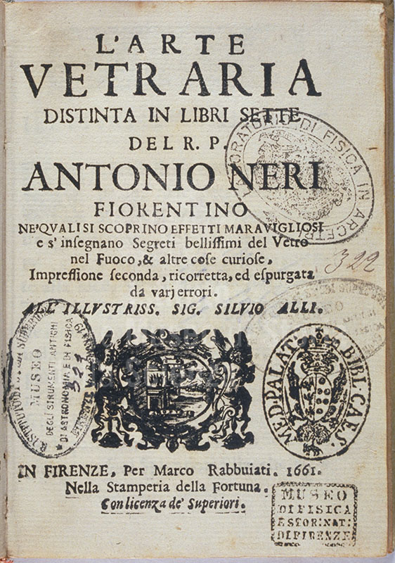 Title page of "L' arte vetraria distineta in libri sette" (1661)